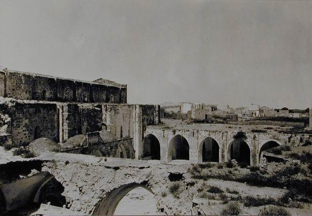 Exterior of the Great Mosque of Gaza before its 1926 renovation, Mosque addition on the right